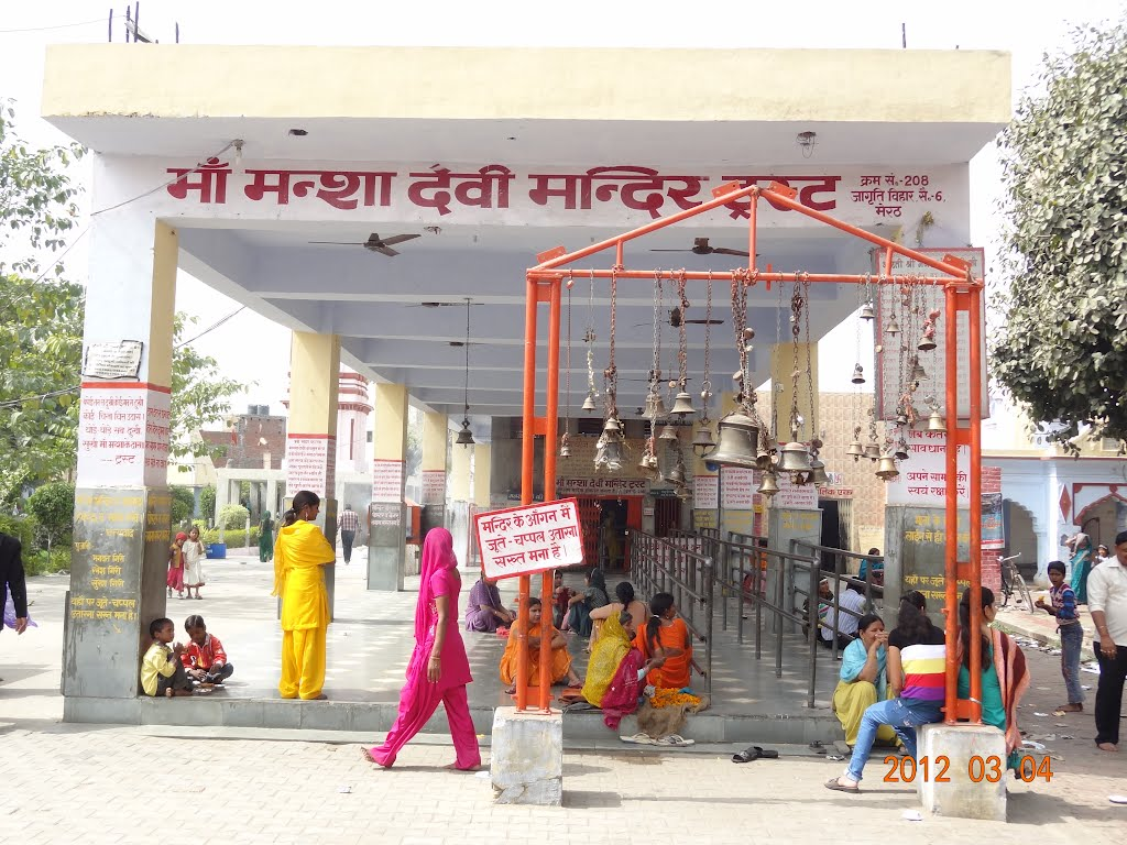 means Devi mandir in Meerut